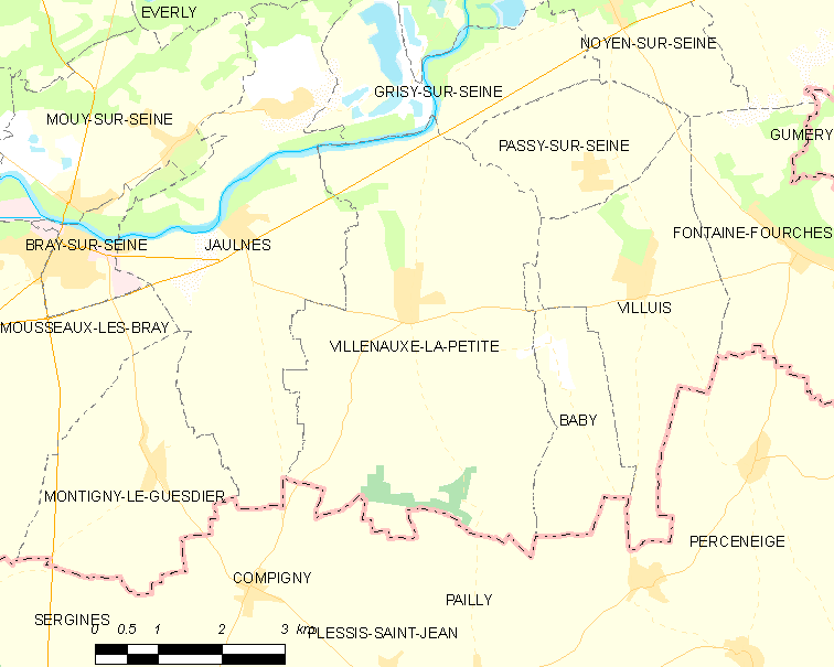 Map of French municipality Villenauxe-la-Petite